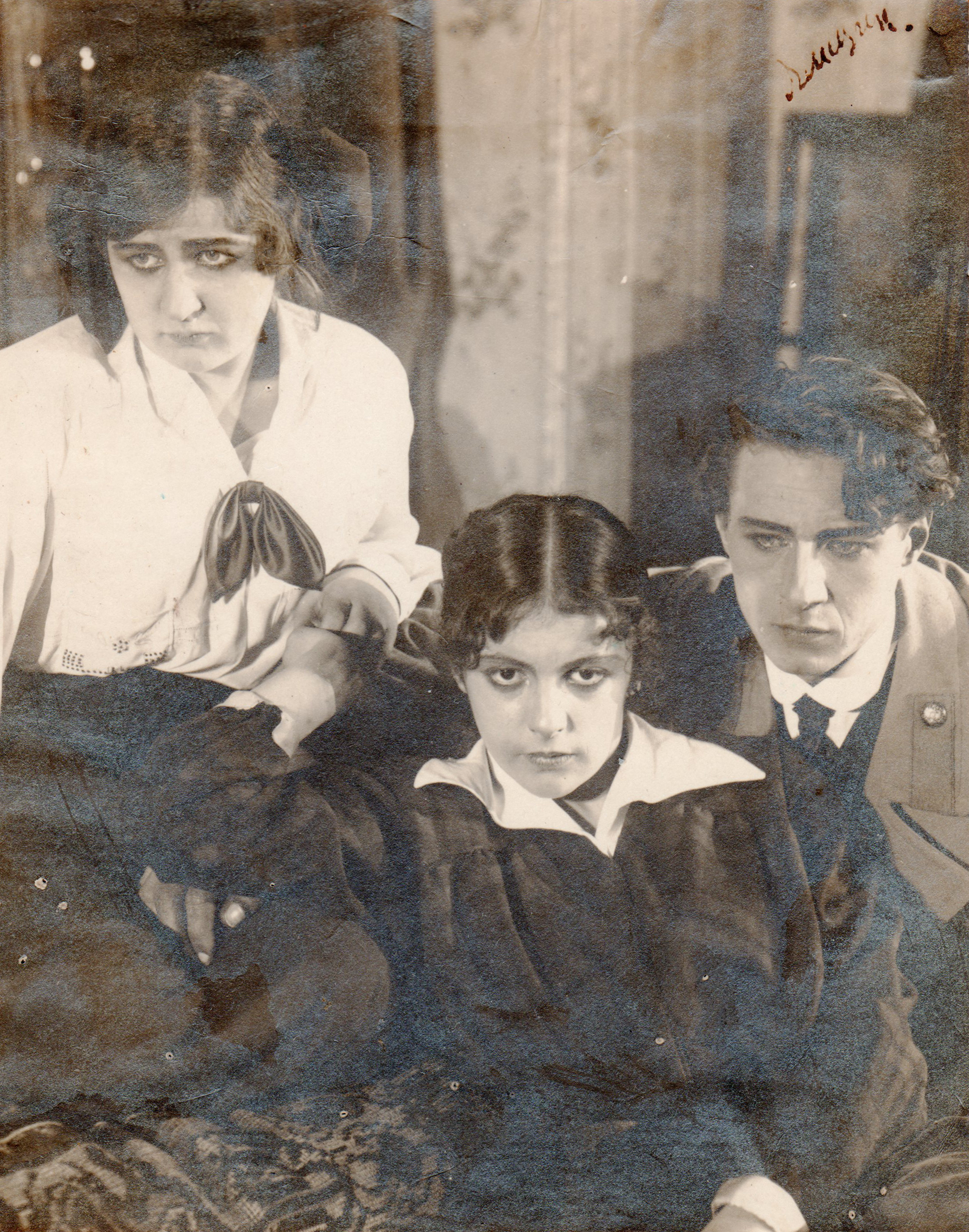 Alexandra Rebikova in the film "Coachman, do not drive horses", 1916